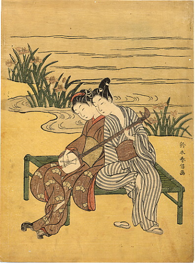 A young couple play the samisen by the bank of a river.